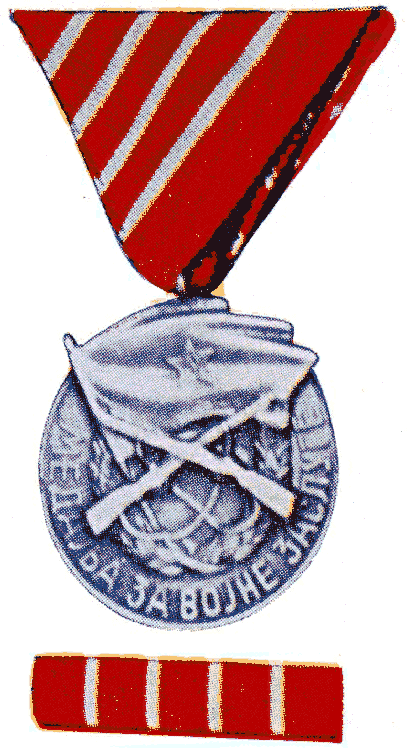 Medal for military merits